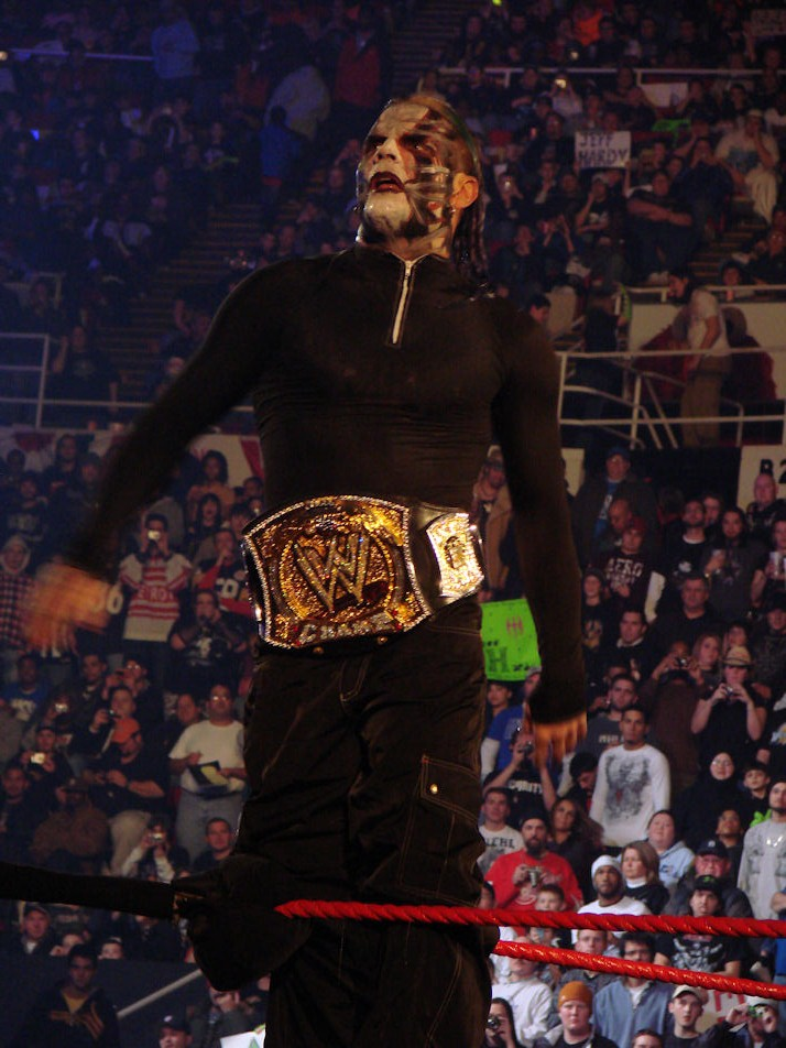 Jeff Hardy as WWE Champion